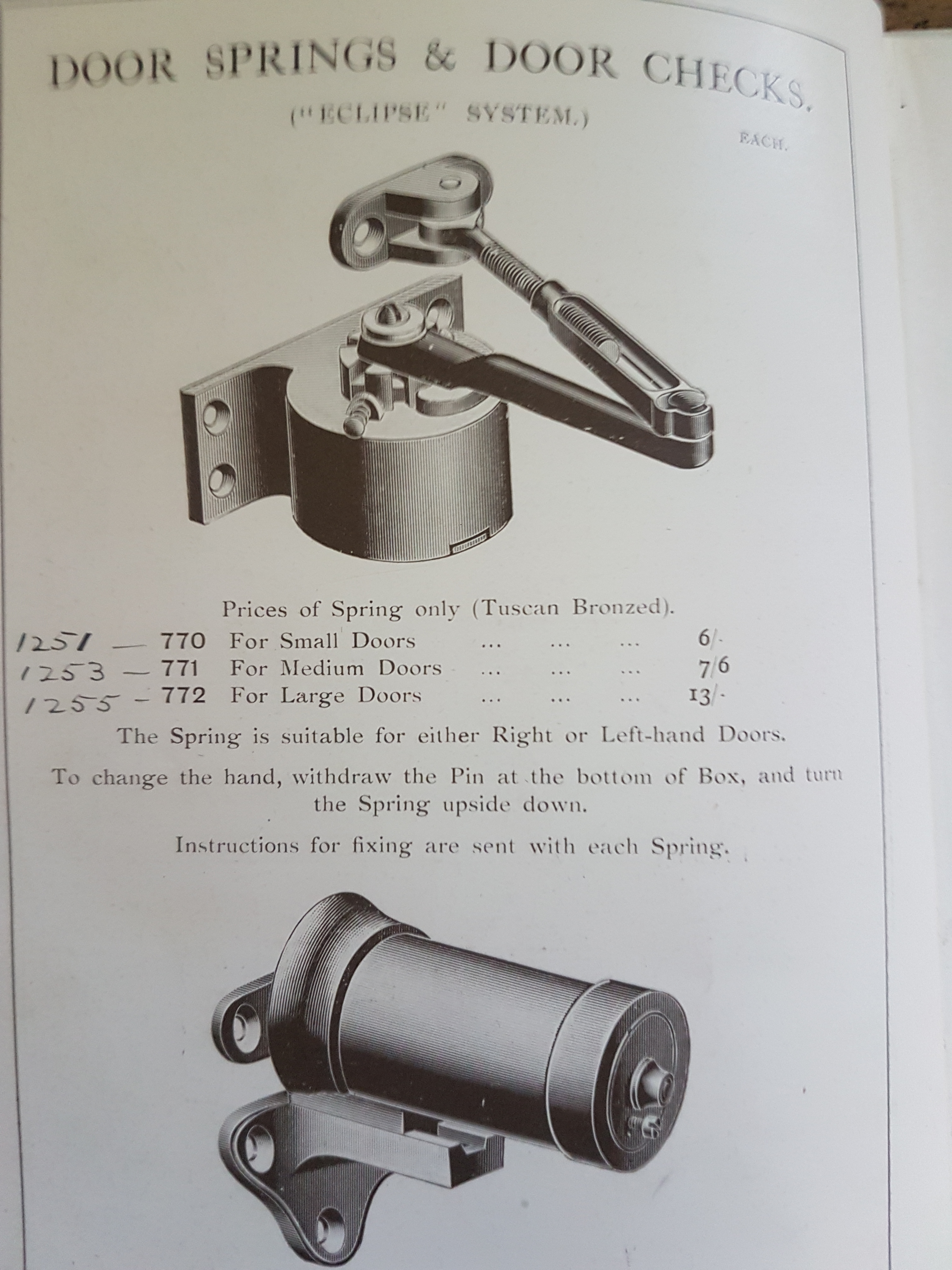 Sargeant Eclipse